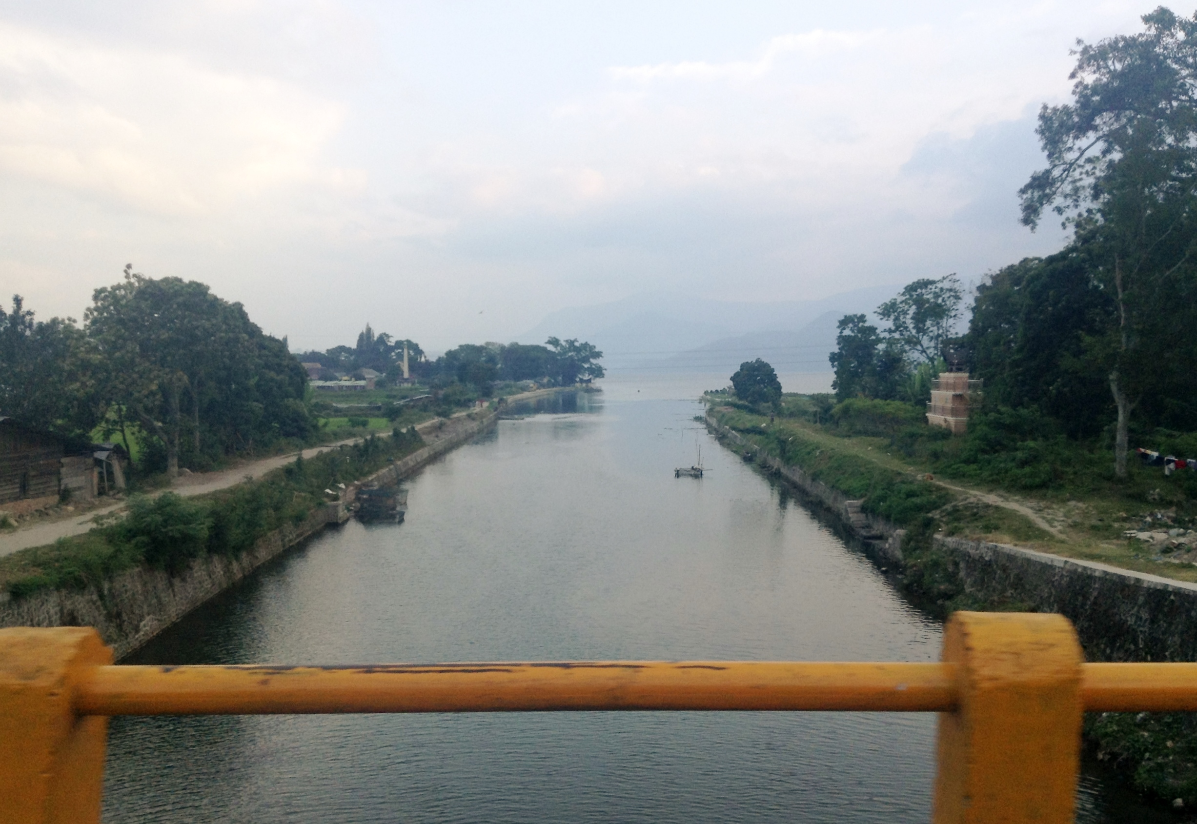 Tano Ponggol Canal near Pangururan; Canal that separates Samosir Island and Sumatra